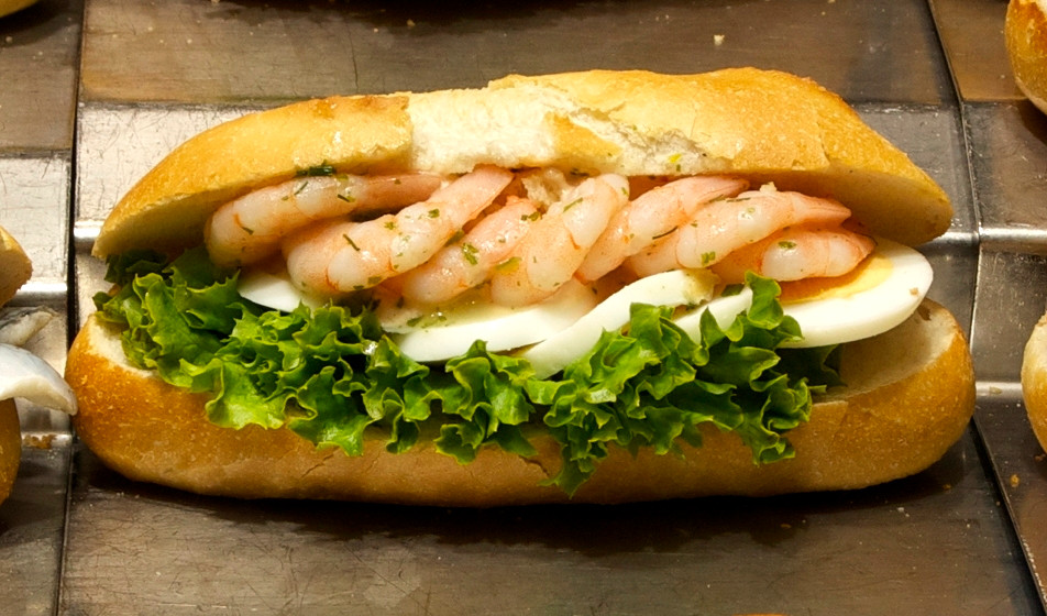 A prawn roll, i.e. a sandwich made out of prawns (shrimp), lettuce, and hard-boiled egg.